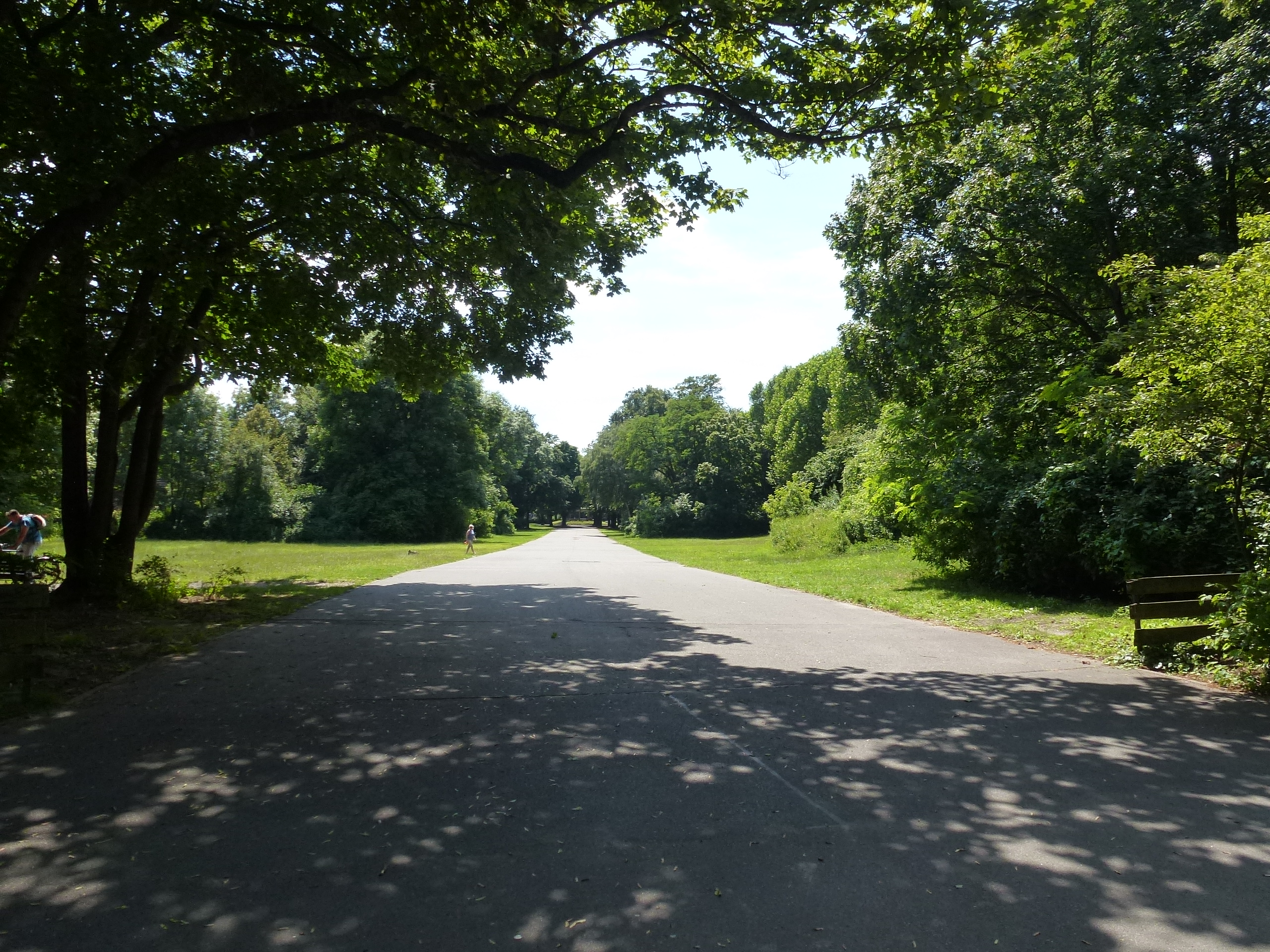 Berlin-Lichterfelde Park am Teltowkanal